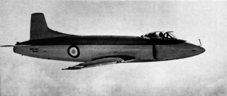 A Royal Navy Supermarine Attacker F.1 (serial WA487) in flight. This aircraft was delivered on 30 June 1951 and finally scrapped in 1958 at Minworth Metals, Castle Bromwich, West Midlands (UK).